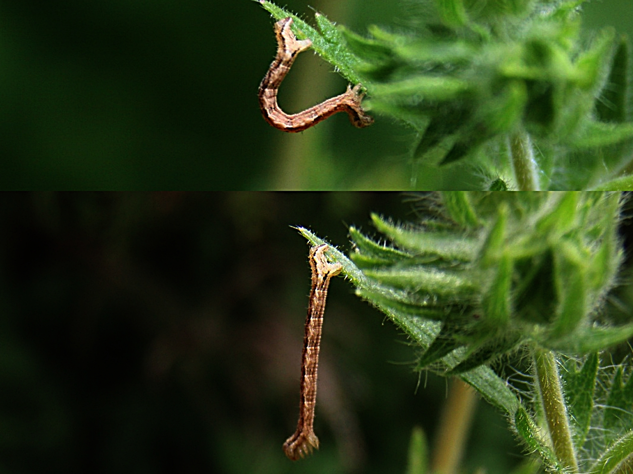 2 pictures combined in one to show locomotion of the geometrid caterpillar